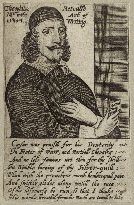 Portrait of Theophilus Metcalfe (bap. 1610 – c.1645), English stenographer, book illustration.